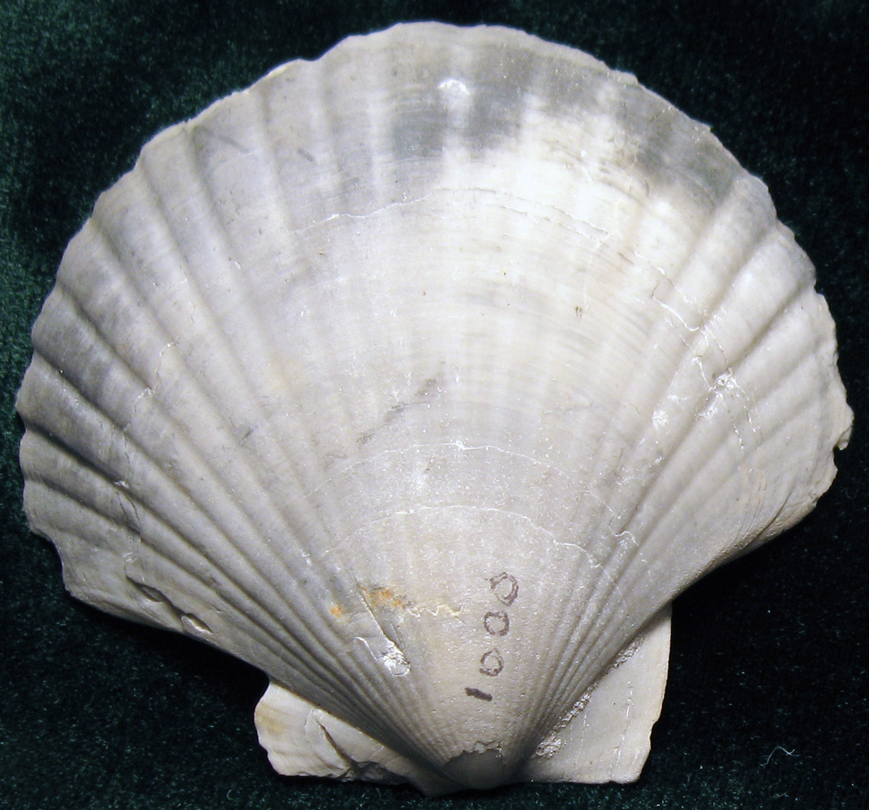 A fossil Pecten ochlockoneensis shell ~8cm wide. Lower Pliocene (~3.7 million years old); Tulane University locality #1000, Pinecrest Beds, Tamiami Formation; Sarasota, Florida, USA; Stonerose Interpretive Center, Joe Turon shell collection, #SR 02-227 A